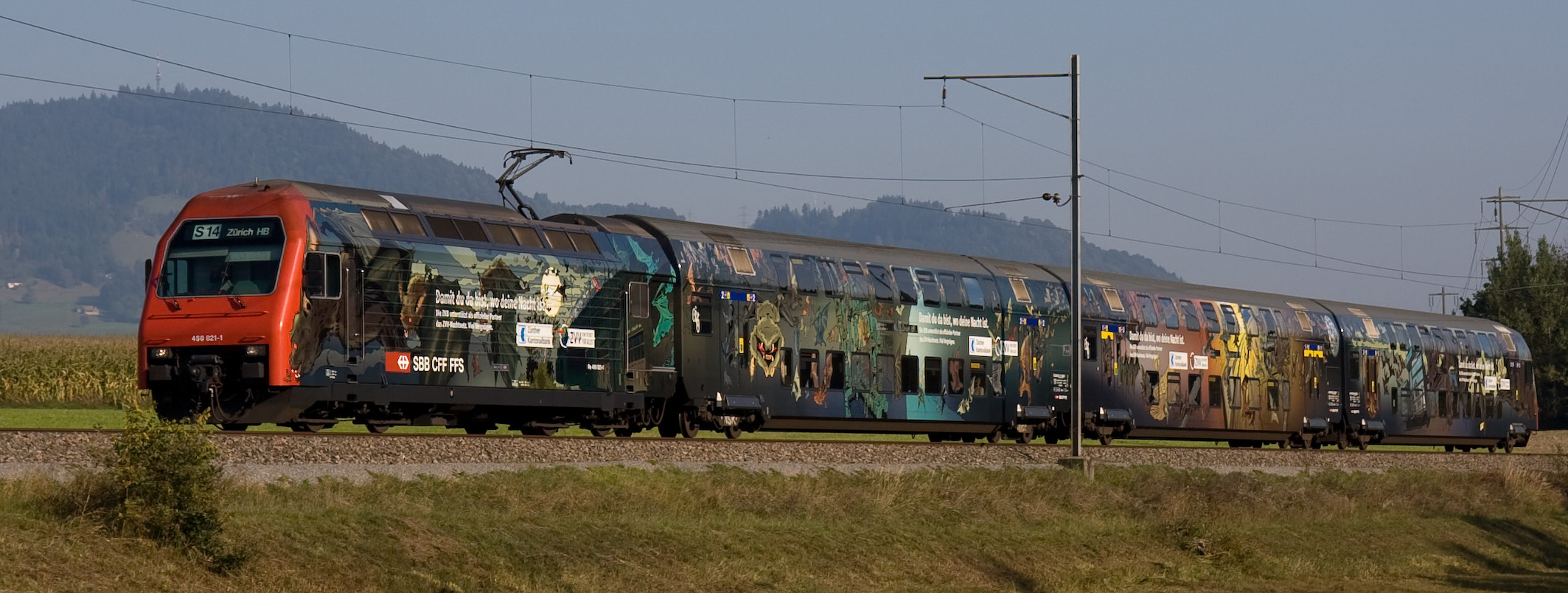 Two double decker S-Bahn trains advertise the ZVV "nighttime network", which carries party folk home at night. This one is on the regular S14 service from Hinwil to Zurich, just outside Wetzikon.